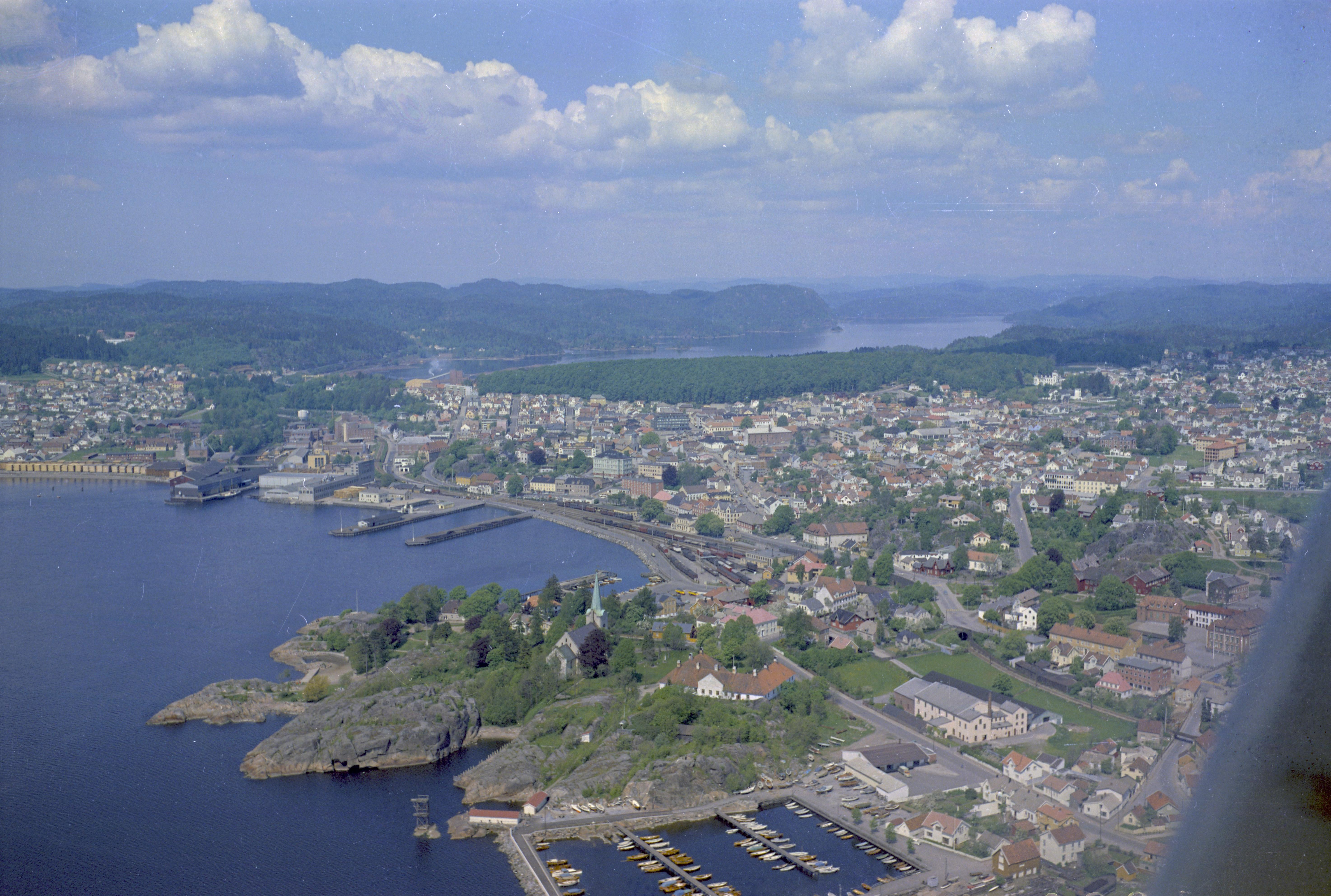 WF.HL.132694